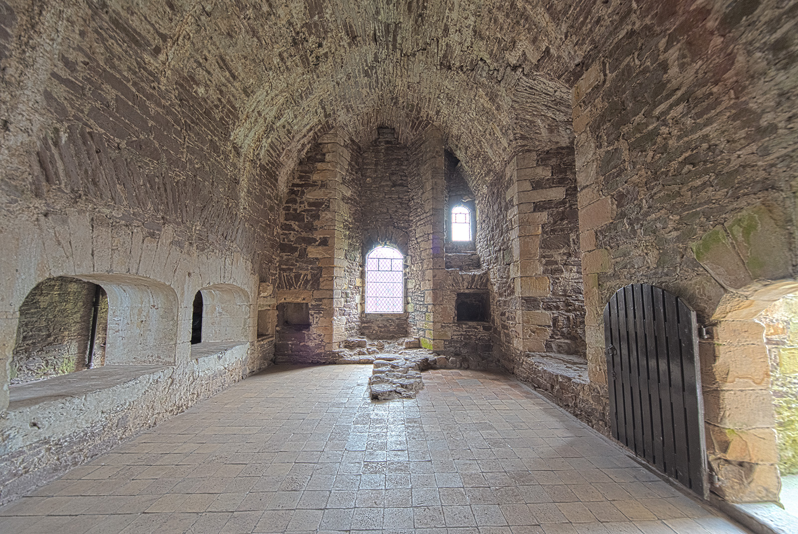 Doune Castle (HDR)